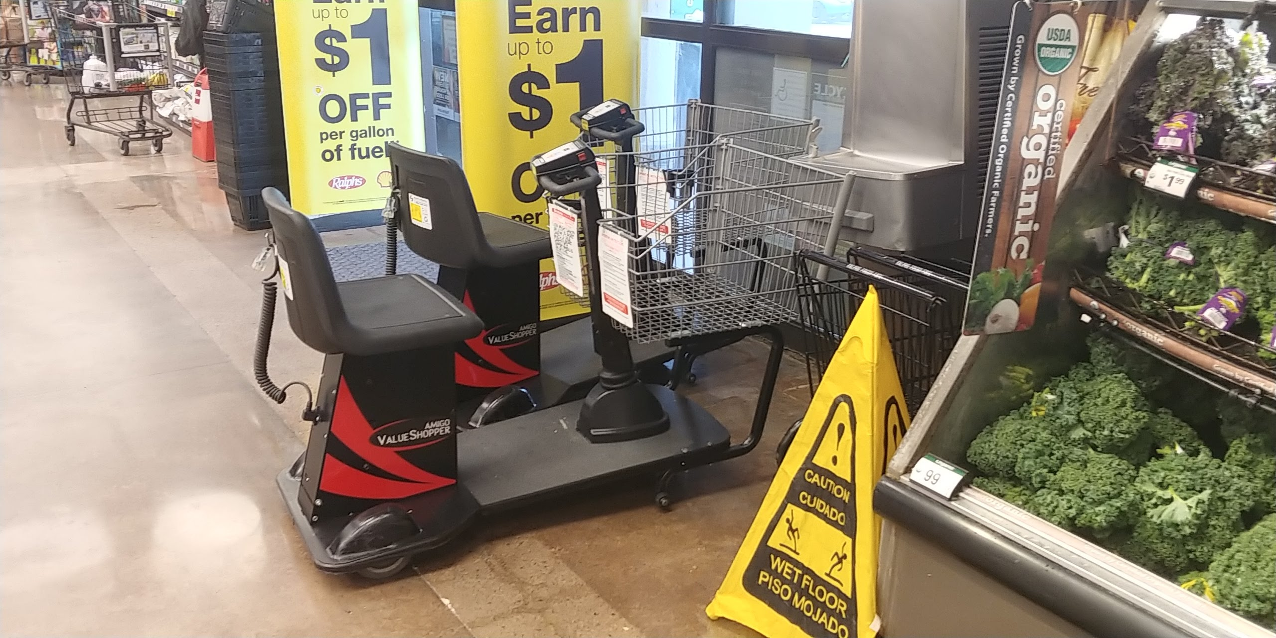 Motorized shopping carts at Ralphs, United States